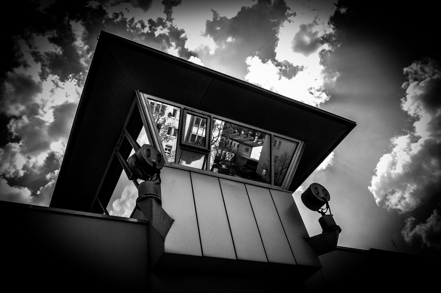 Prison Tower Stadelheim in Munich